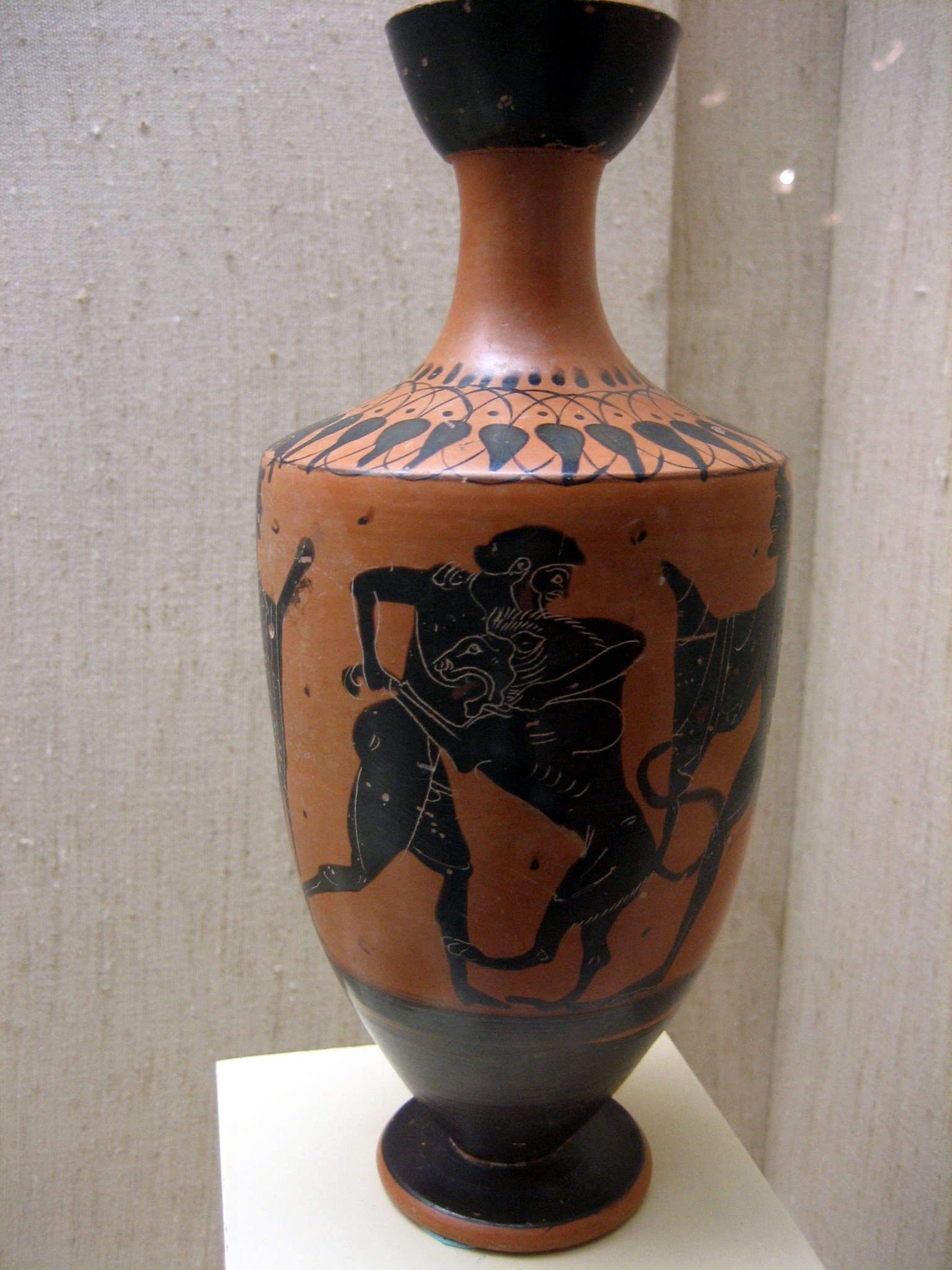 Herakles and the Nemean lion. Black-figure lekythos worked by the Painter of Athens 581, ca. 500 BC. Museum of Cycladic Art in Athens.